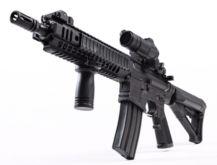 CAR 816 assault rifle by Caracal International L.L.C built in the United Arab Emirates